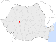 Location of Sebeș in Romania.